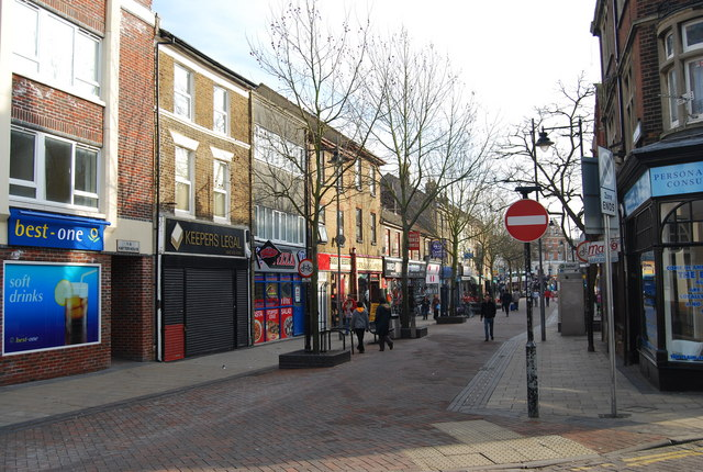 Gillingham High St